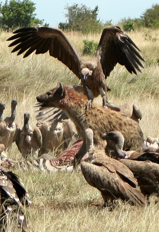 Hyena and Vultures fight for a dead zebra.